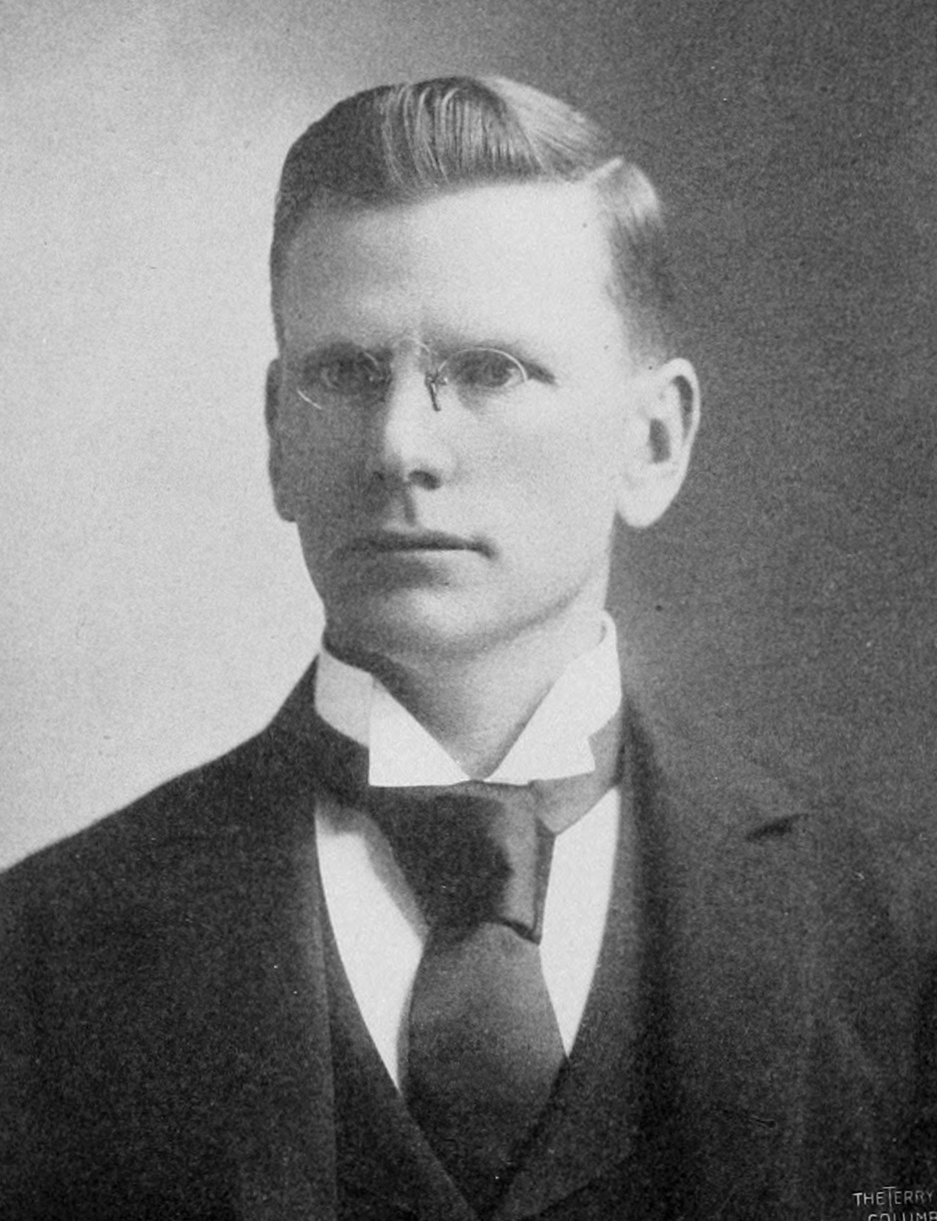 Marion De Vries, California Congressman and Judge.